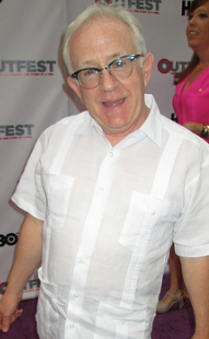 Leslie Jordan in 2012 at a red carpet event